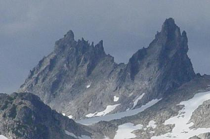 Close up view of Mount Fee in southwestern British Columbia, Canada